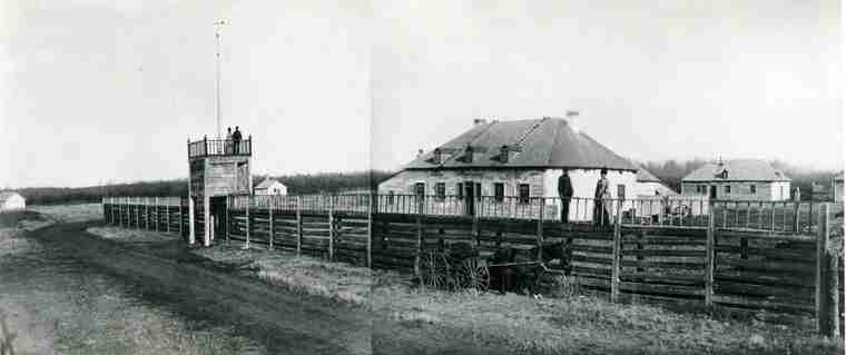 Fort Pelly was located at the Indian Elbow of the Assiniboine River located eight miles south-west of the site of the present village of Pelly. Fort Pelly was built in 1824 by the Hudson's Bay Company. The high palisade fence that surrounded the Fort in 1872 has been replaced by a plank fence in this photo. Scope and content A photograph of Fort Pelly trading post in 1887. Two non-Aboriginal couples are posing for photo, standing on top of the new plank fence palisade.